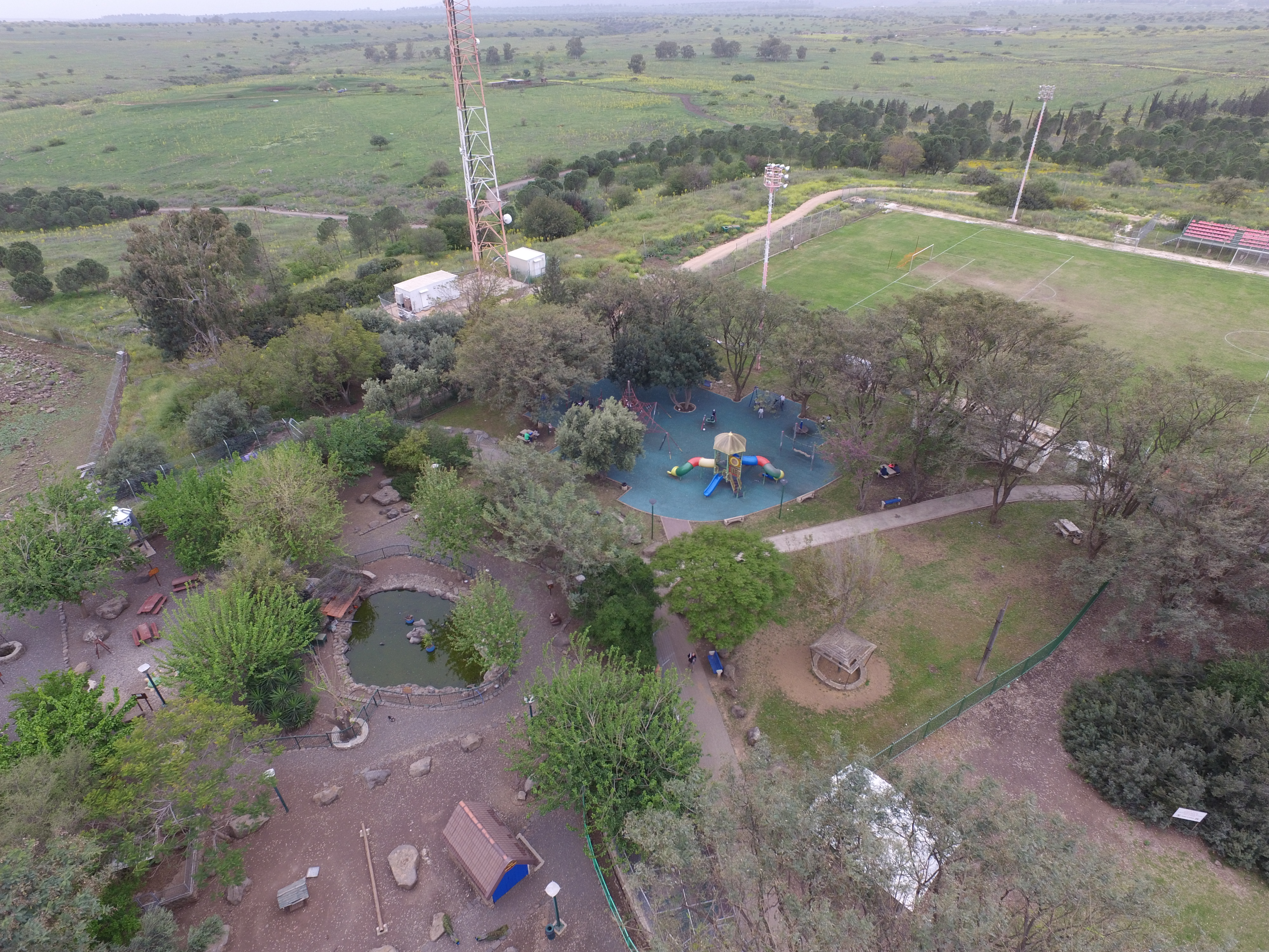 Cities in Golan